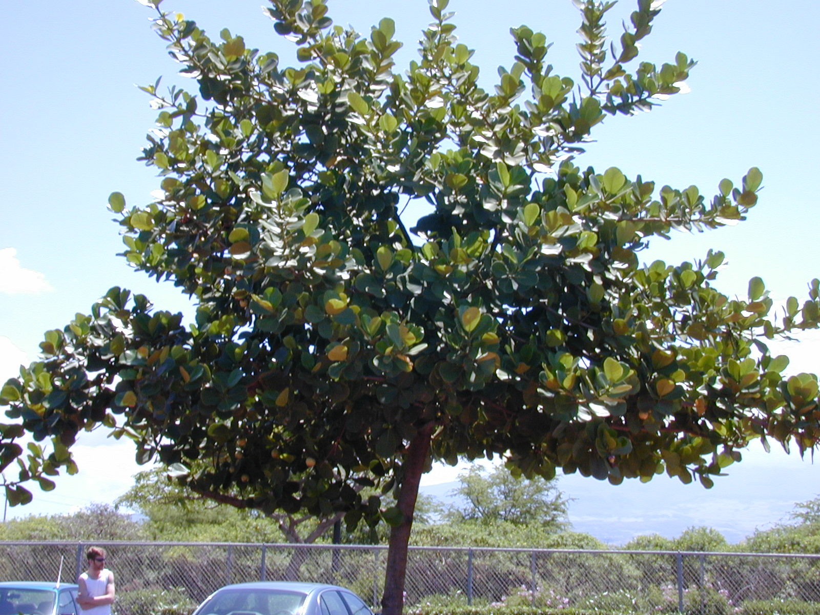 Clusia rosea (habit). Location: Maui, Kahului